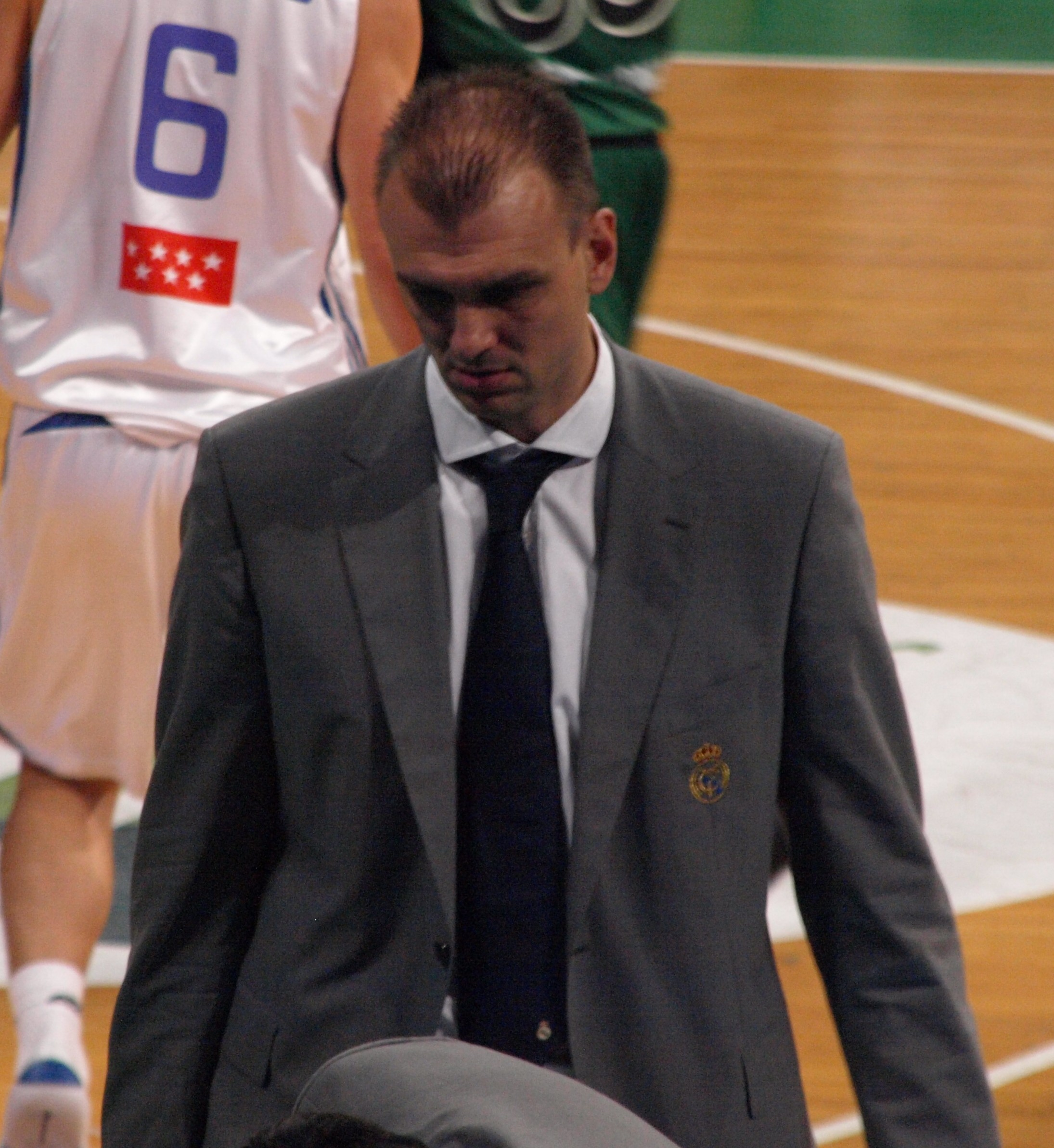 Žan Tabak as Assistant Coach of Real Madrid in november of 2008.